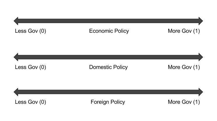 The three-axis political spectrum based on government influence.